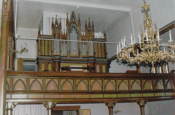 The Olsen & Jørgensen organ of Tyristrand Church near Hønefoss, South Norway